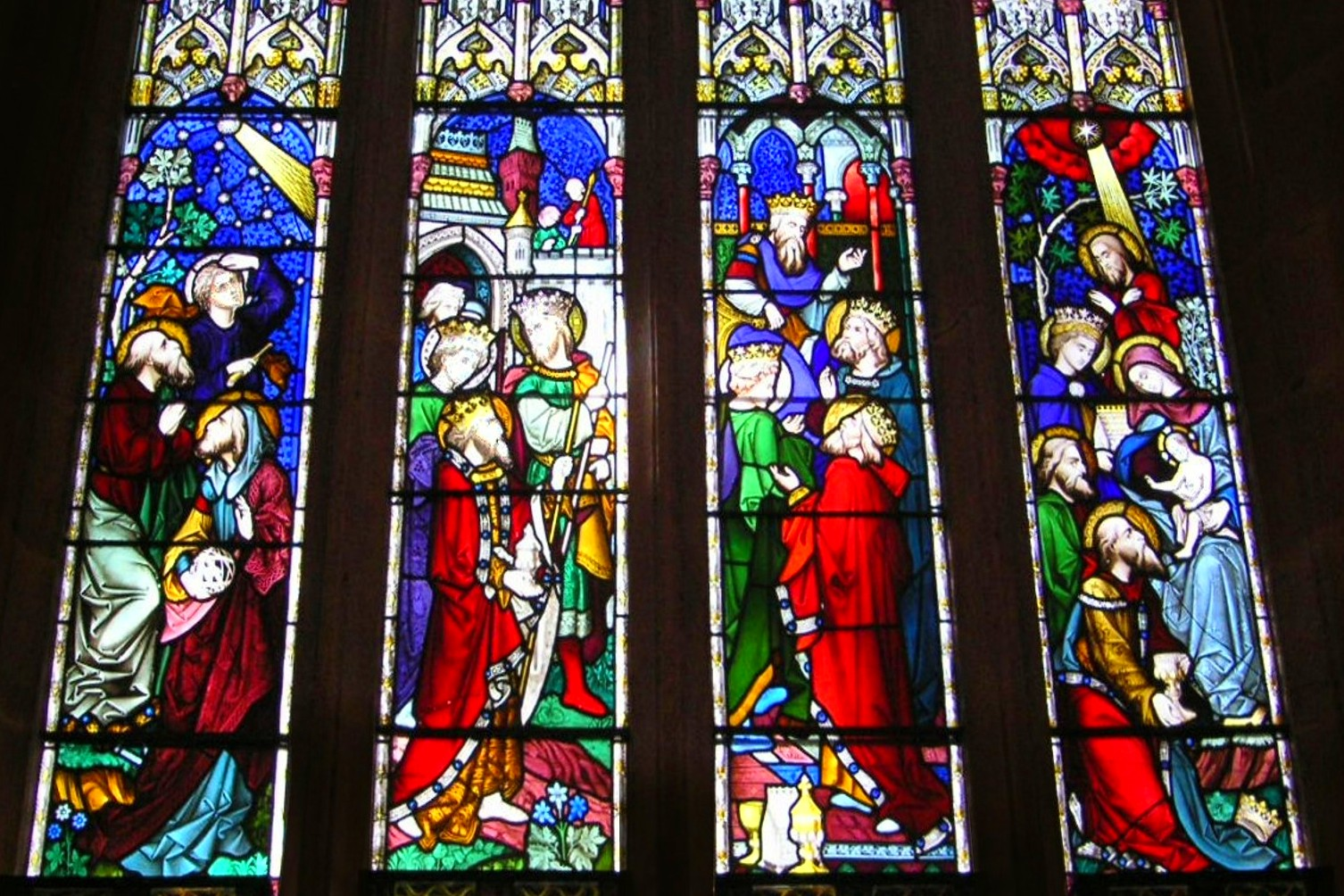 St. Andrew's Anglican Cathedral, Sydney. The Magi, one of a set of 27 windows illustrating the life of Jesus and his teachings as described in the Gospels. manufactured by John Hardman and Co. of Birmingham, about 1860.